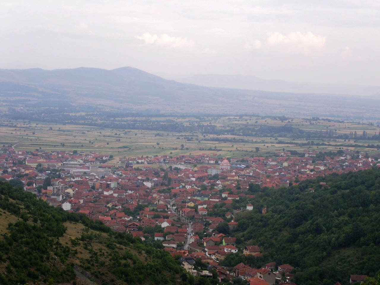 View on Preševo